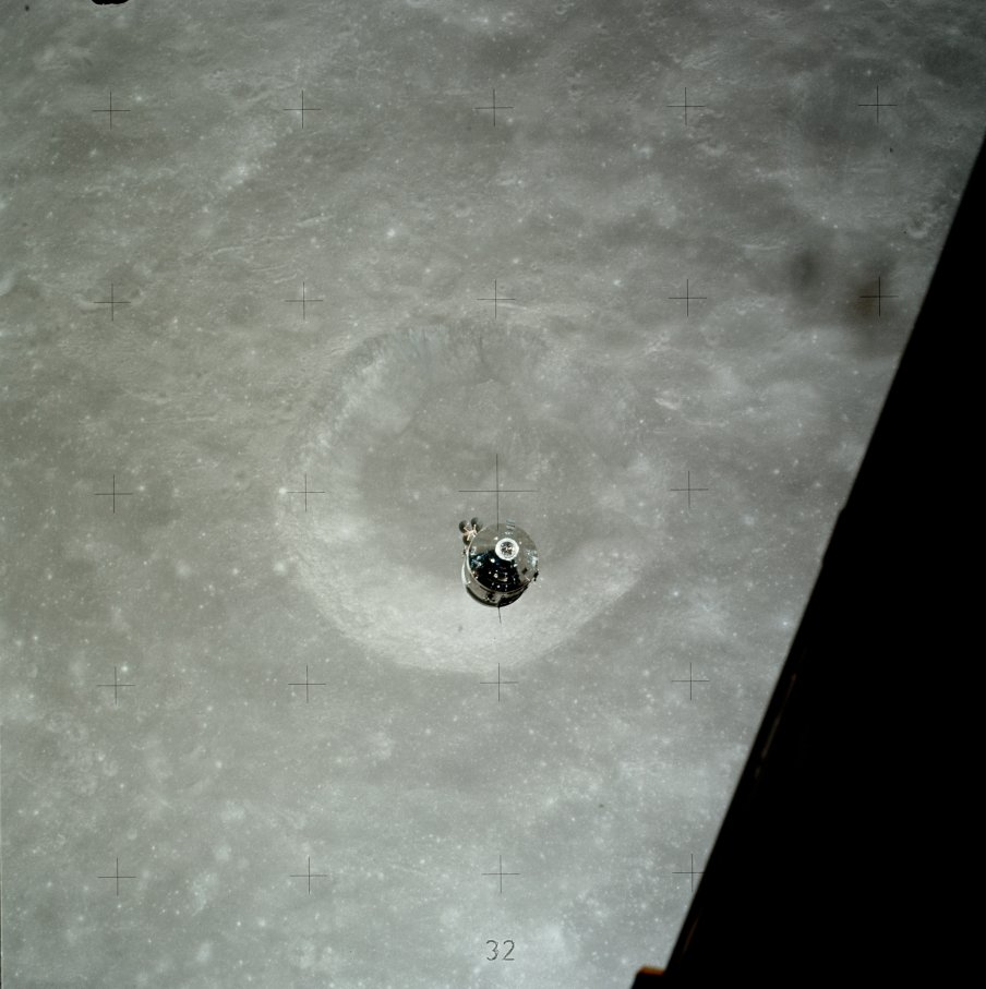 Apollo 17's CSM America above Becvar X, a crater which is located just north-northwest of Becvar itself. The dark "triangle" in the lower right corner is the silhouette of LM Challenger's window-margin. Note: this orbital photograph is the first in a series which shows the rotation of CSM America.